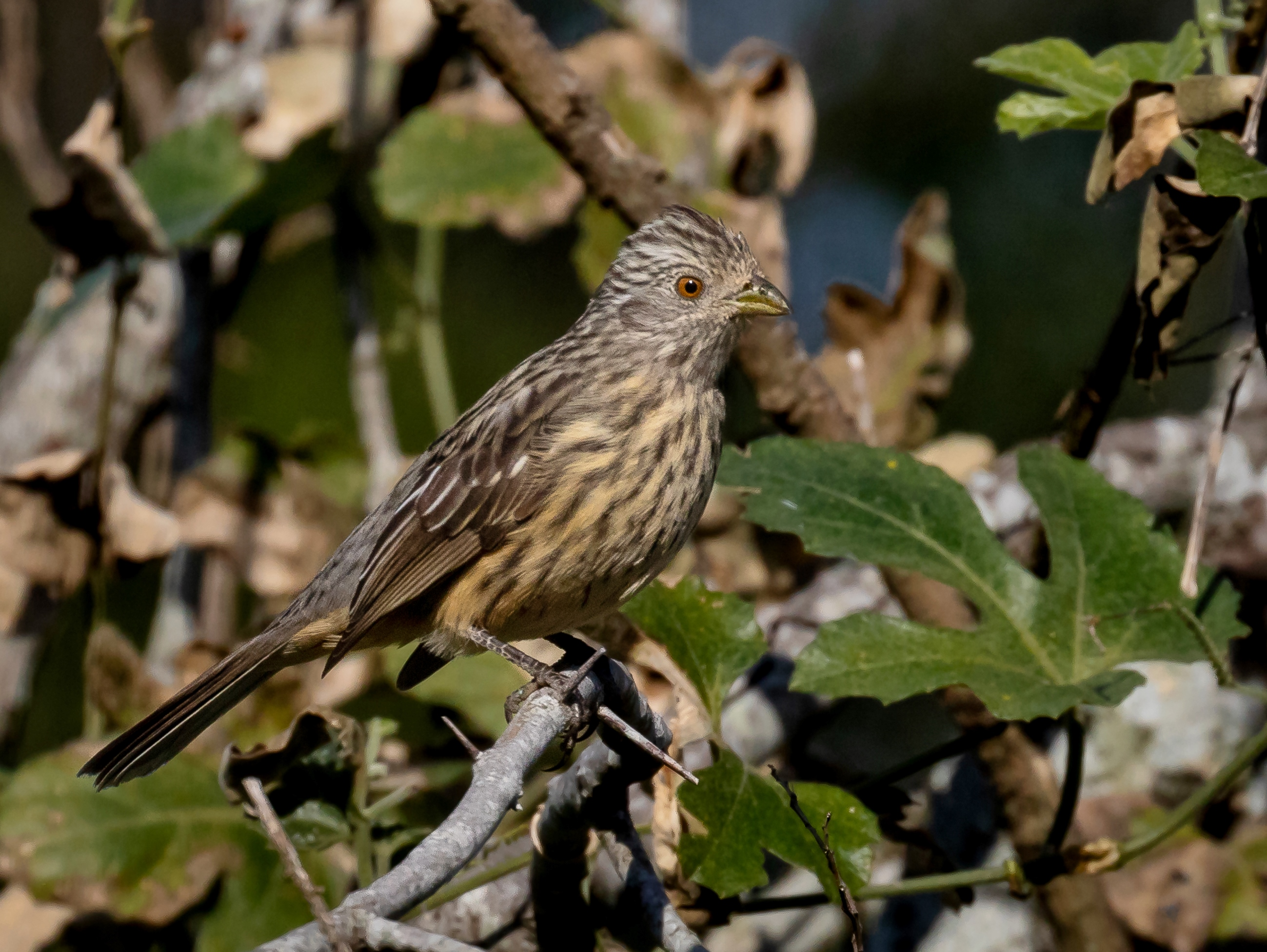 White-tipped plantcutter (female), Esteros de Farrapos National Park, Rio Negro, Uruguay